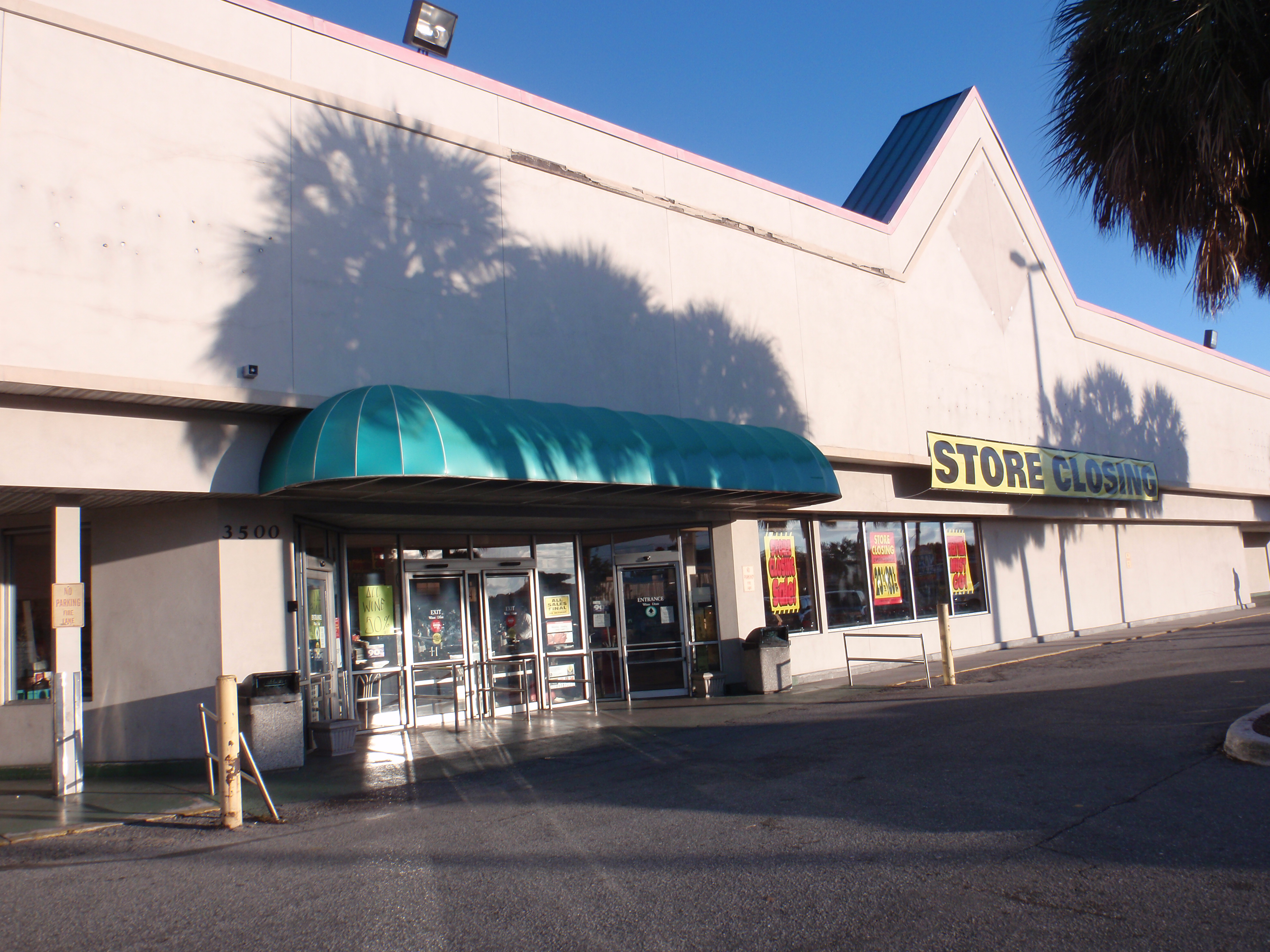 A Winn Dixie in Sarasota, Florida is closing their doors forever. Building & road signs are already gone.